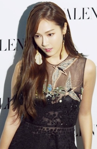 Jessica Jung at Marina Bay Sands Valentino event on January 13, 2016.